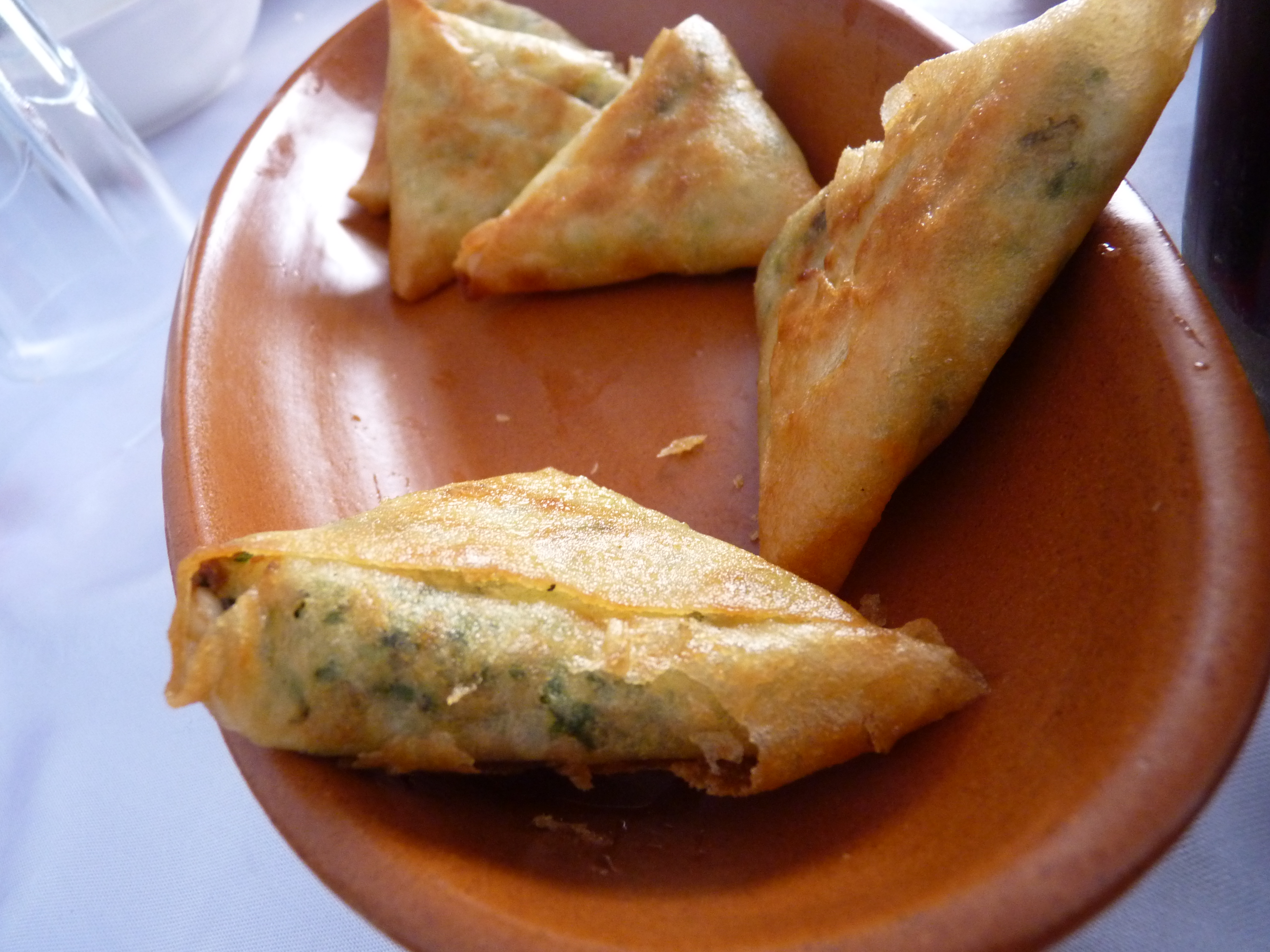 Brik at our home-hosted meal in Kairouan